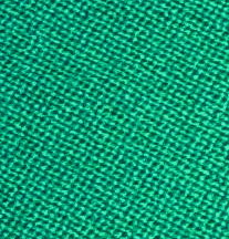 A closeup of the weave of baize, the type of fabric used to cover billiard tables. This particular sample is Simonis 760, a high-end pocket billiards cloth; it is napless, unlike snooker cloth, and smooth and non-fuzzy, unlike typical bar pool cloth.